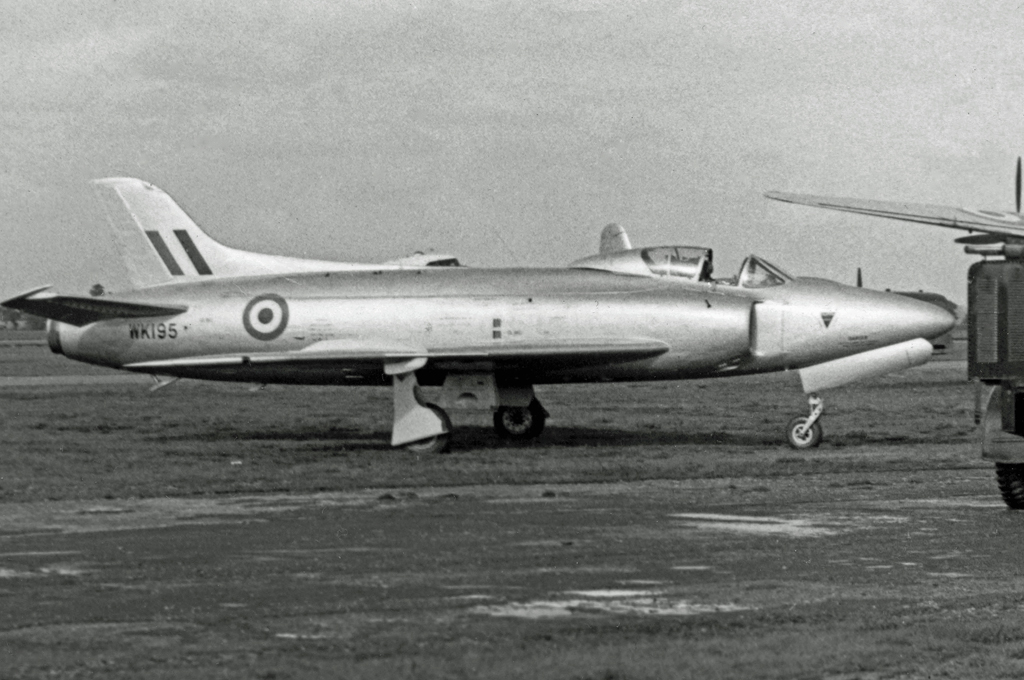 Supermarine Swift F.1 WK195 at Blackbushe Airport, Hants, in 1953